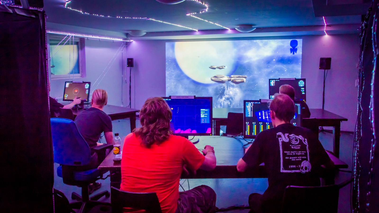 Gamers playing Artemis: Spaceship Bridge Simulator at Ropecon 2014.